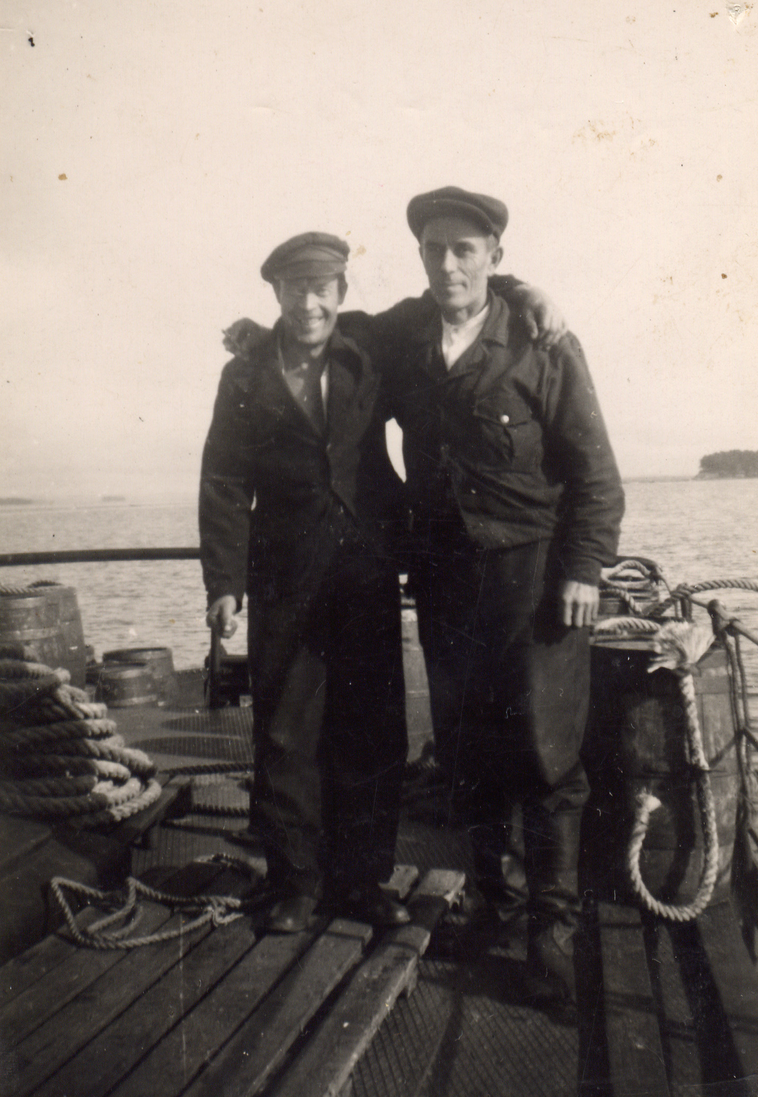 Captain Hannes Kemppainen and engineer Ilmari Hurskainen on Kajaani I